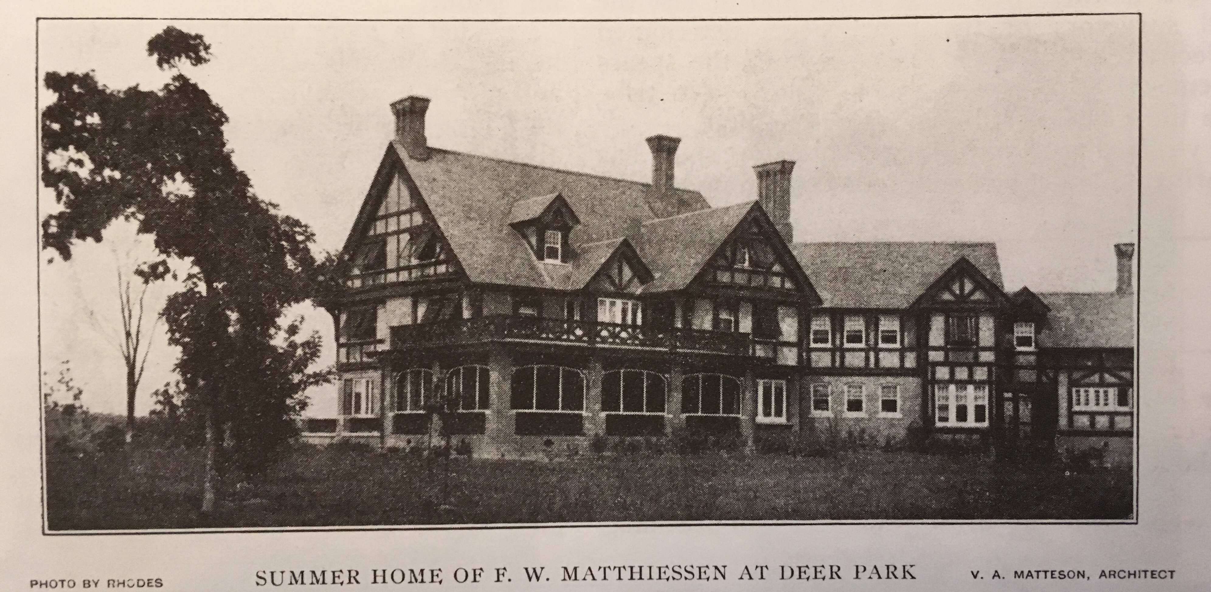 Summer Home of Frederick William Matthiessen at Deer Park. The home has since been demolished, but the Deer Park Estate has become Matthiessen State Park. Home designed by Victor Andres Matteson.